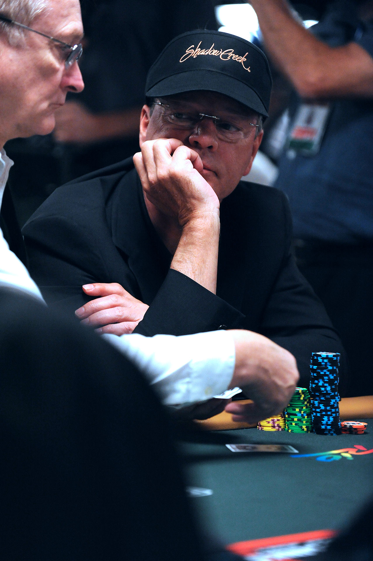 Bobby Baldwin at the 2010 WSOP